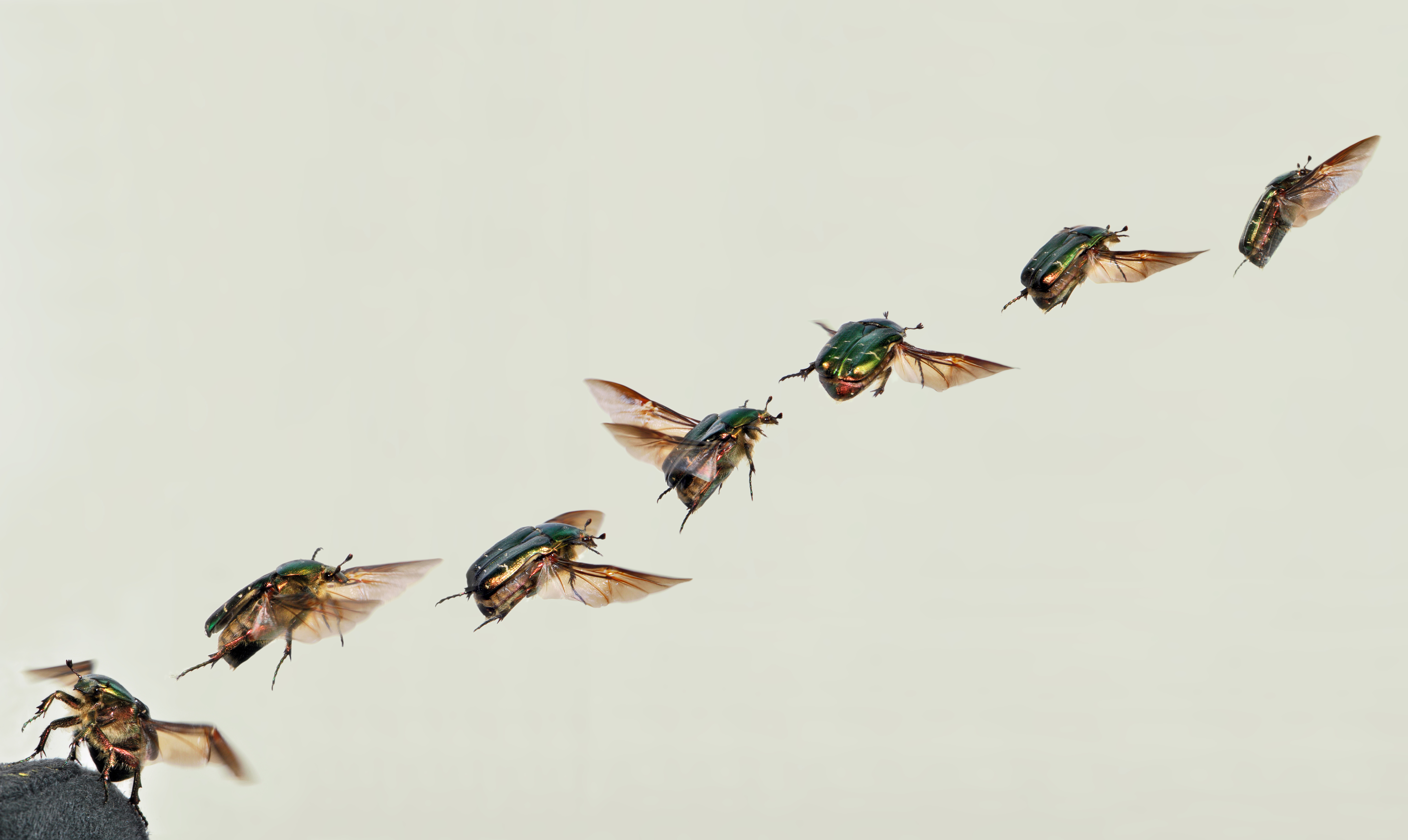 Cetonia aurata, known as the rose chafer, or more rarely as the green rose chafer, is a beetle, 20 mm (¾ in) long, that has metallic green coloration (but can be bronze, copper, violet, blue/black or grey) with a distinct V shaped scutellum, the small triangular area between the wing cases just below the thorax, and having several other irregular small white lines and marks. The underside is a coppery colour. This is a compilation of multiple images showing a take-off.